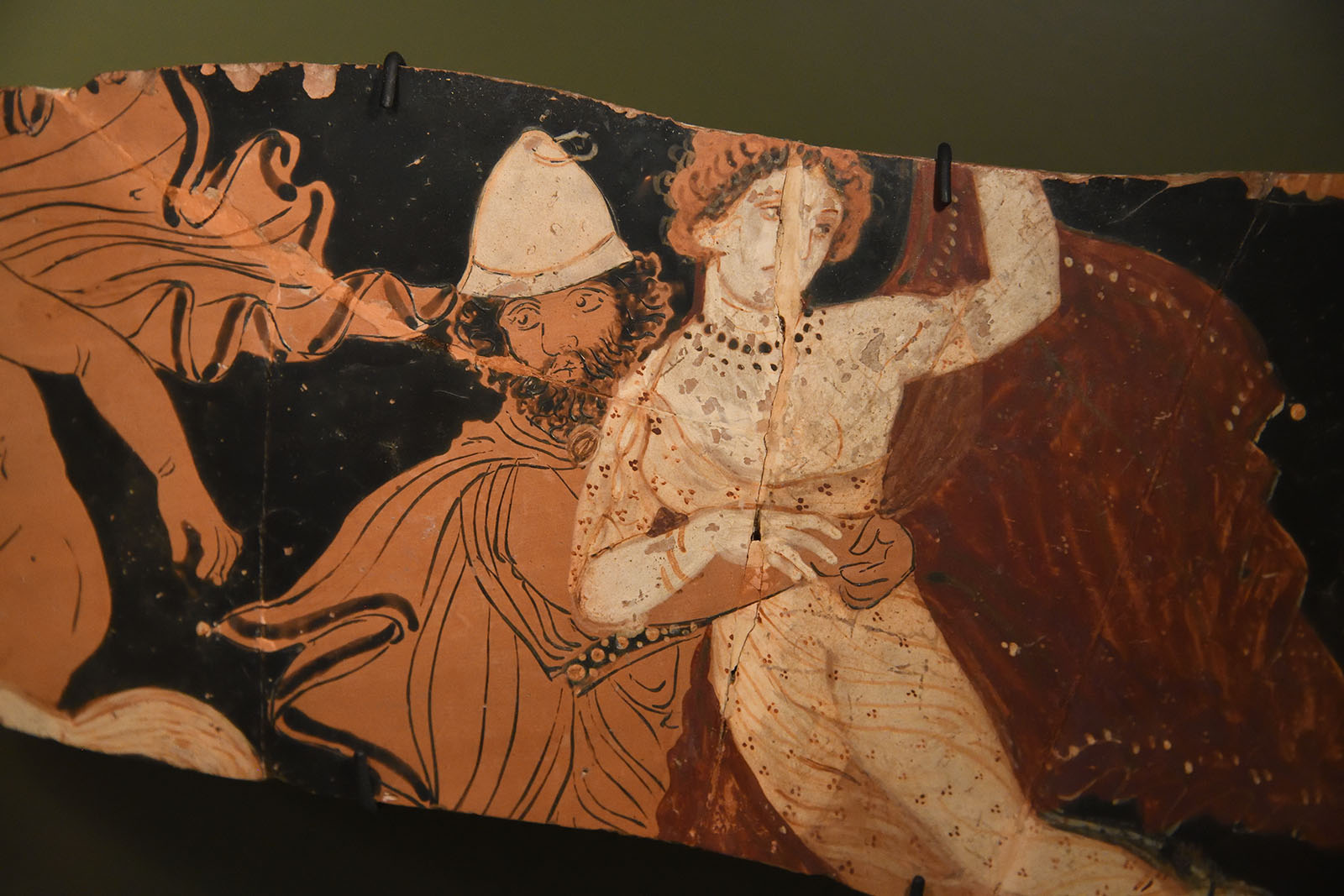 Hades abducts Persephone (daughter of Zeus and Demeter). Pottery made and found in Taranto (Italy), 350-325 BC (inv. 2588)